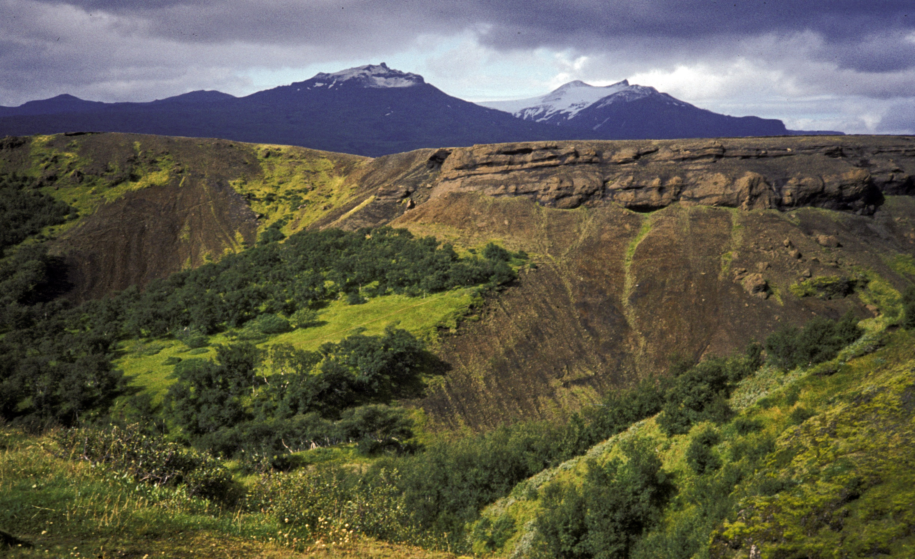 Iceland